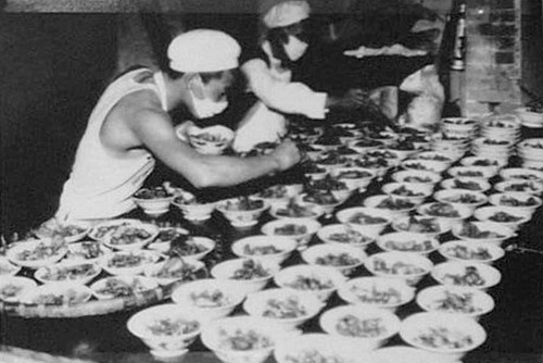 1958 People's commune free for all kitchen, where members were supposed to be able to eat all they can eat.